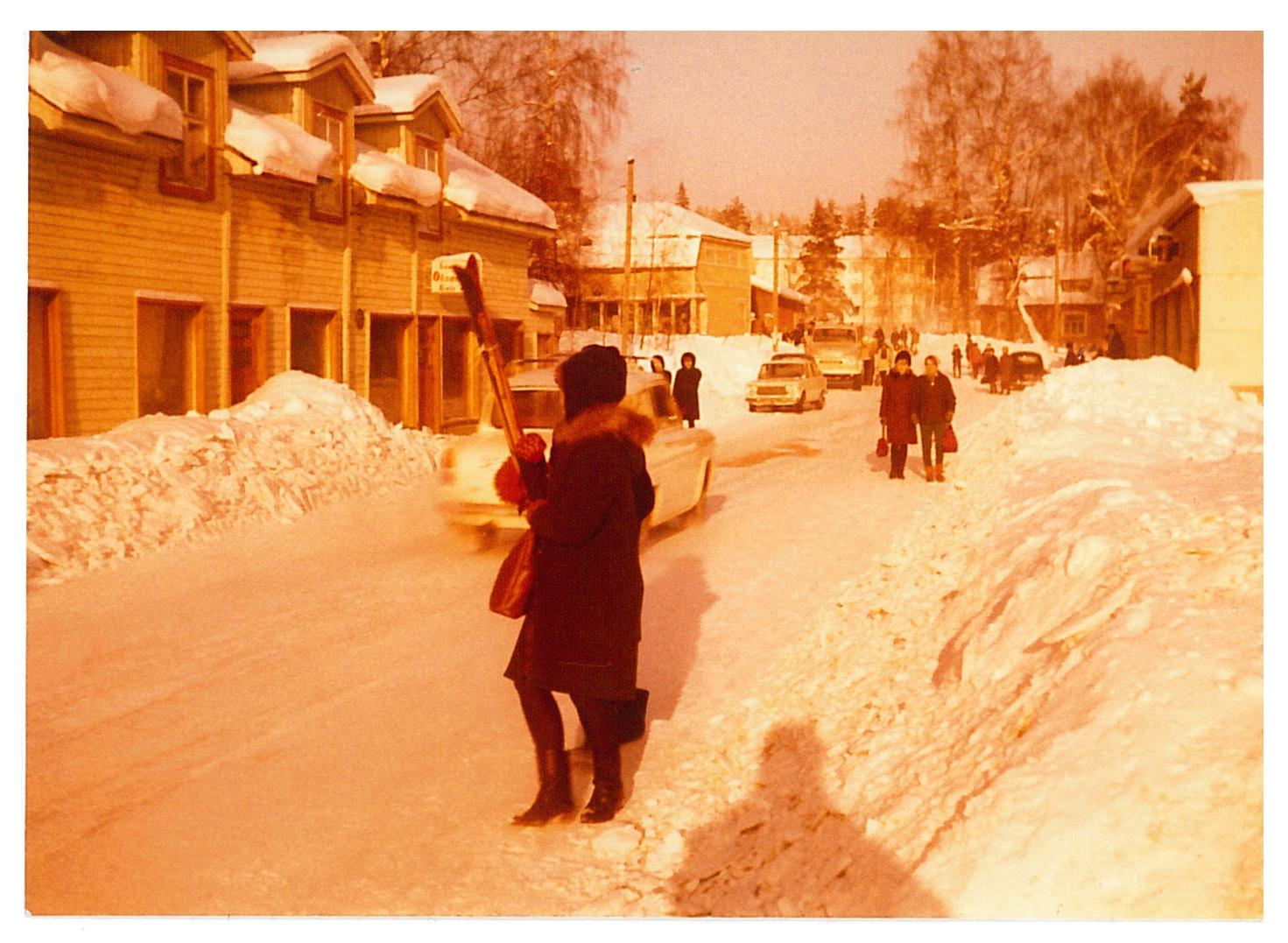 Centre of Vaajakoski in the 1960's